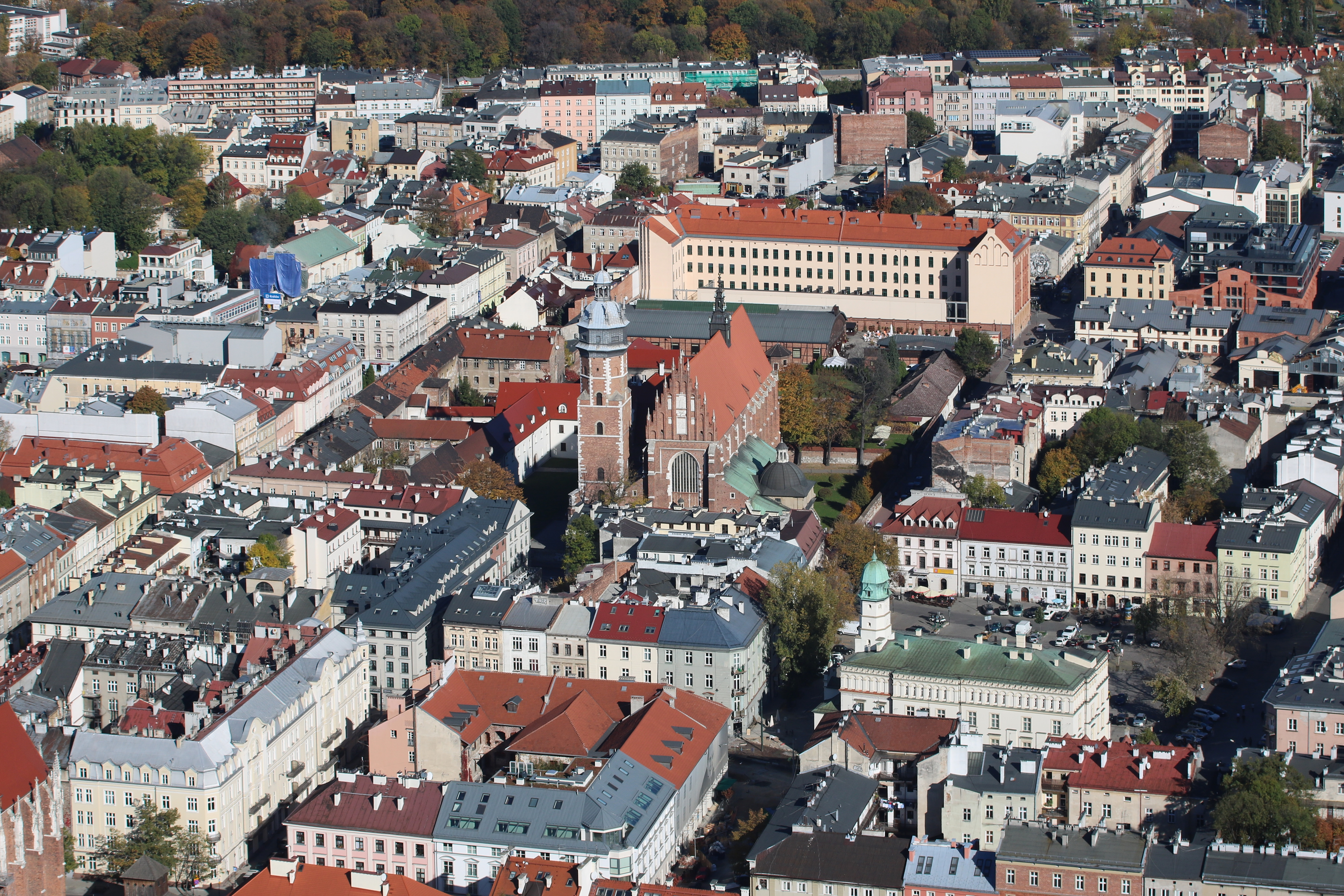 Krakow - Bazylika Bożego Ciała from captive balloon